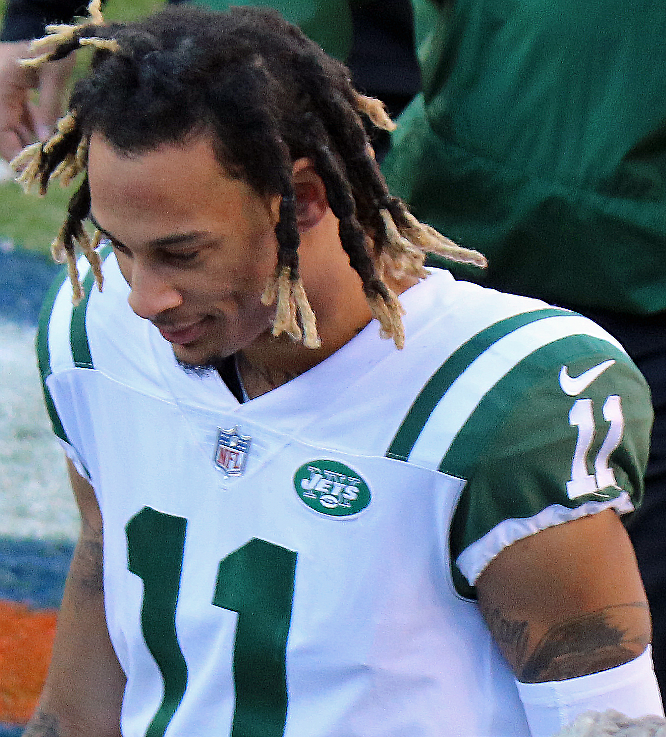 Robby Anderson, a National Football League player.